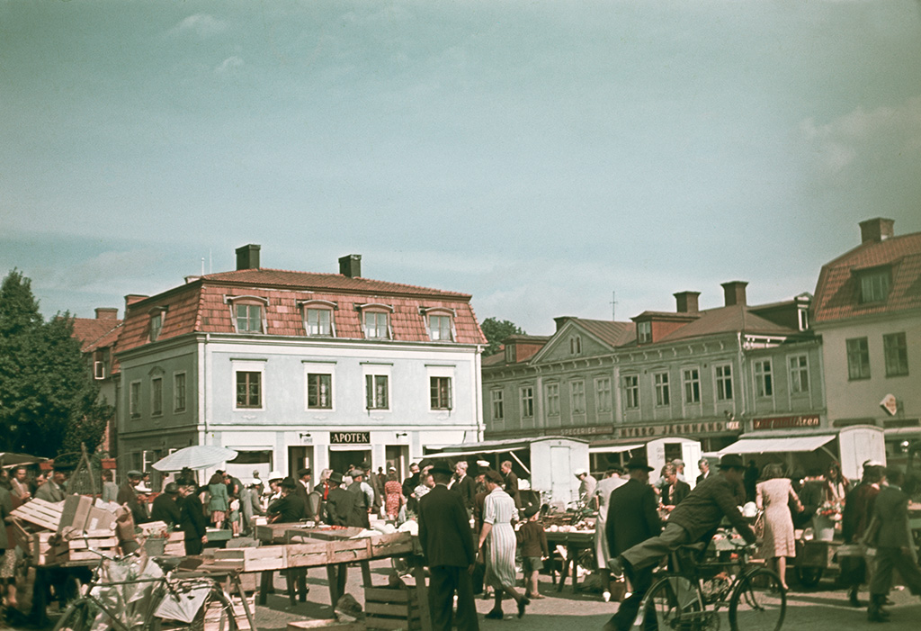 People at the Market Square in Nybro. Människor på Salutorget i Nybro. Parish (socken): Nybro Province (landskap): Småland Municipality (kommun): Nybro County (län): Kalmar Photograph by: Fredrik Bruno Date: 1945 Format: Colour slide See a recent photo of the same view: Persistent URL: Read more about the photo database (in english)